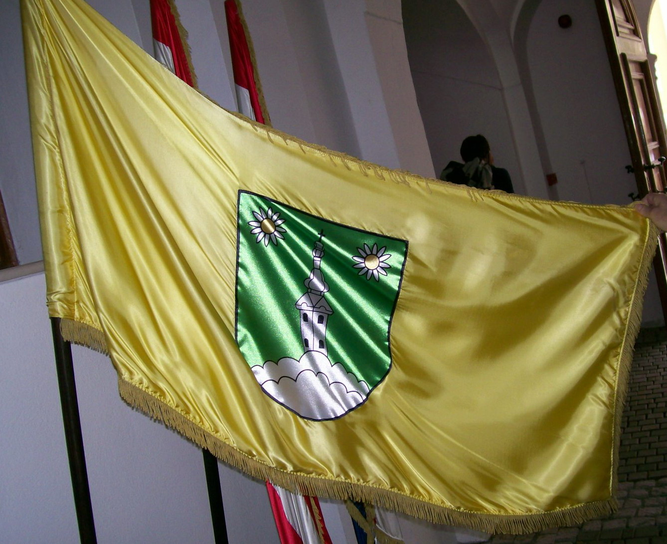 Flag of Town of Novi Marof, Varaždin County, Croatia